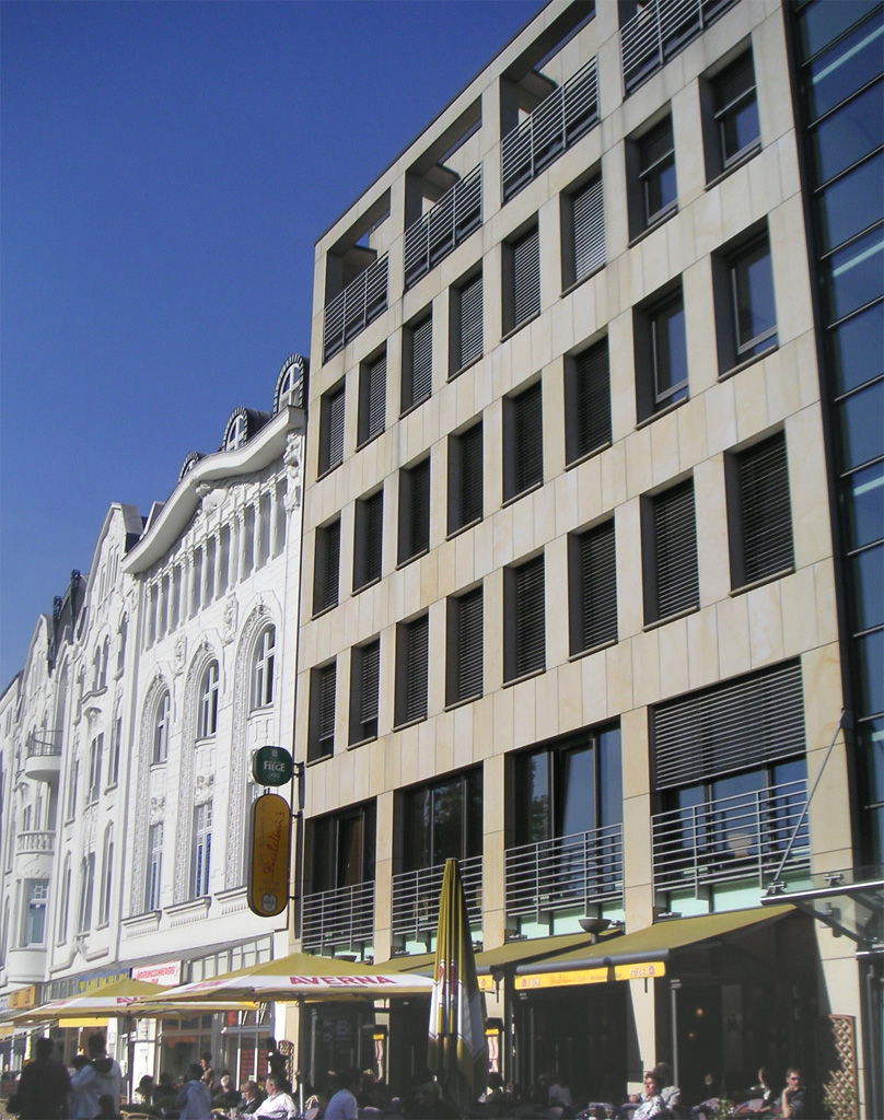 In the picture you can see some contrasts in the inner-city of Gelsenkirchen; the modern café "Baldinis" on the right and a old business and apartment house on the left.